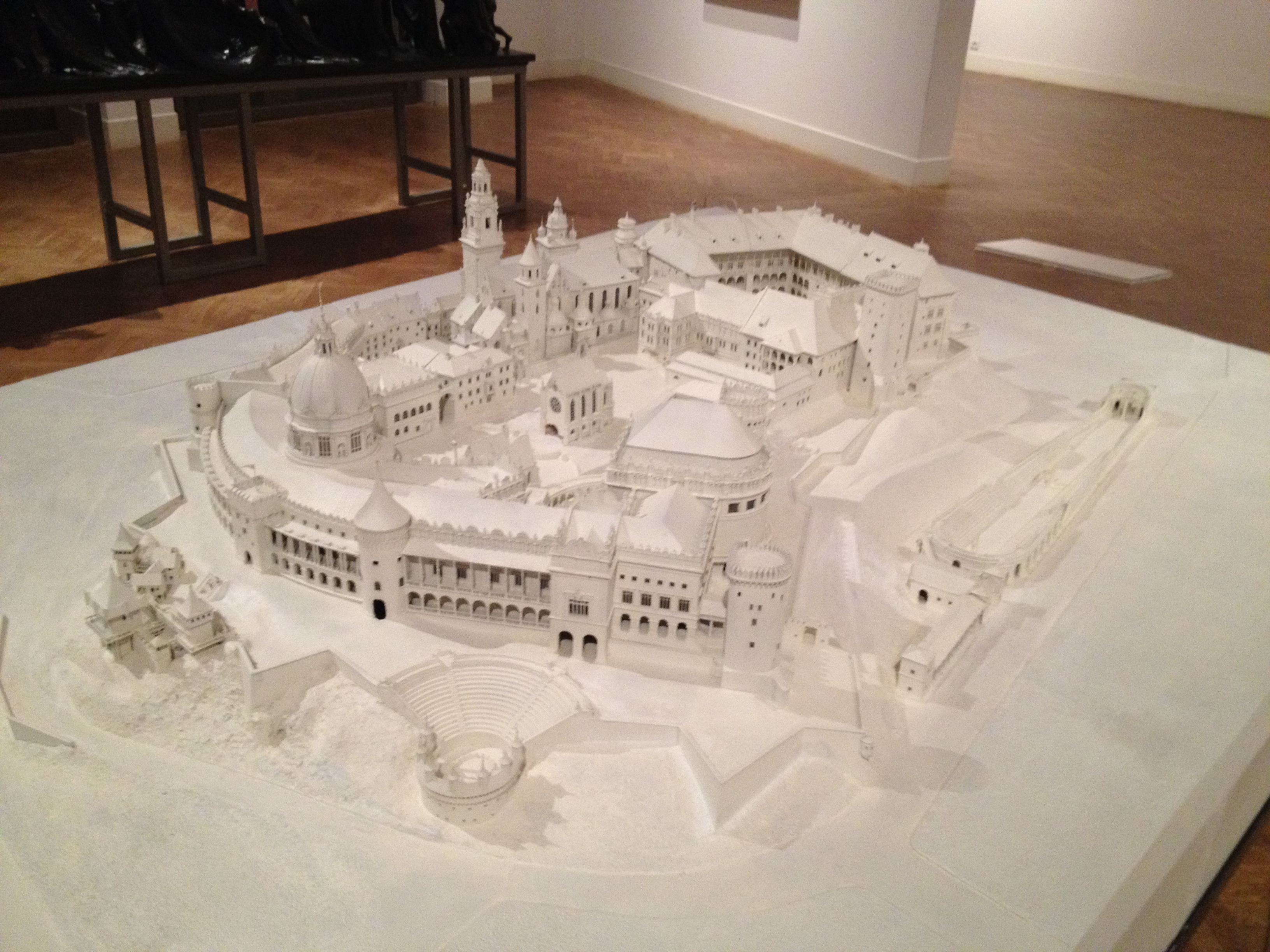 Design for the redevelopment of the Wawel Hill, made by Stanisław Wyspiański (1869-1907) and Władysław Ekielski (1855-1927) at the turn of 1904 and 1905. This project was called the Wawel Acropolis. Originally the design was planned as a background and stage scenery for the plays by Wyspiański. In 1905, emperor Franz Joseph I ordered the army to vacate the hill. The design of the Acropolis became one of the idealistic concepts of a restoration. The idea was that the political, social, scientific and cultural life of the Polish nation was to be focused on the hill. Therefore it was planned that the hill would house the most important state and cultural institutions, such as the Senate, the Sejm, the Polish Academy of Sciences, and the Polish Academy of Arts and Sciences. The design for the Acropolis was inspired by the most famous landmarks of Krakow's architecture, thus becoming a historiosophic synthesis of the history and spirit of Poland. The model was made based on the original designs and is located in the National Museum in Kraków.